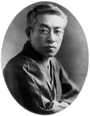 Japanese author Shimazaki Toson (1872-1943)